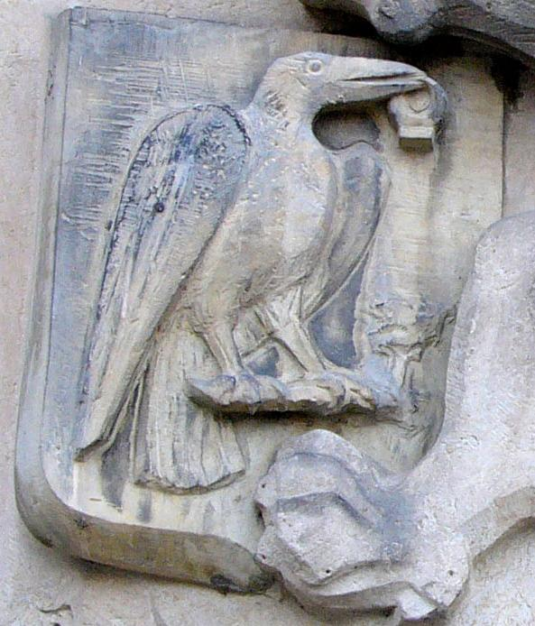 Korwin coat of arms in Olomouc, Moravia (kingdom of Bohemia), 1479.